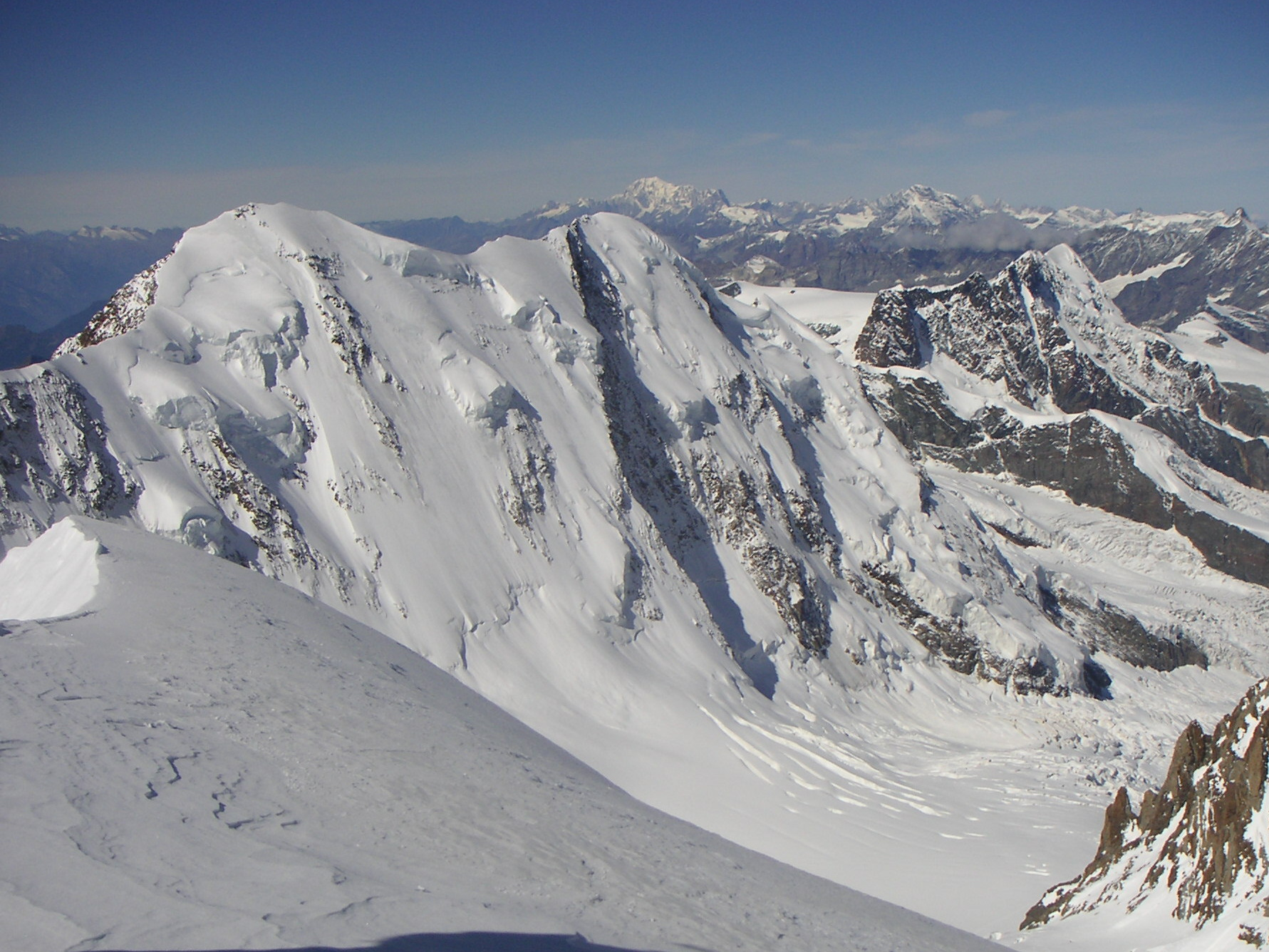 The north face of Lyskamm viewed from Zumsteinspitze